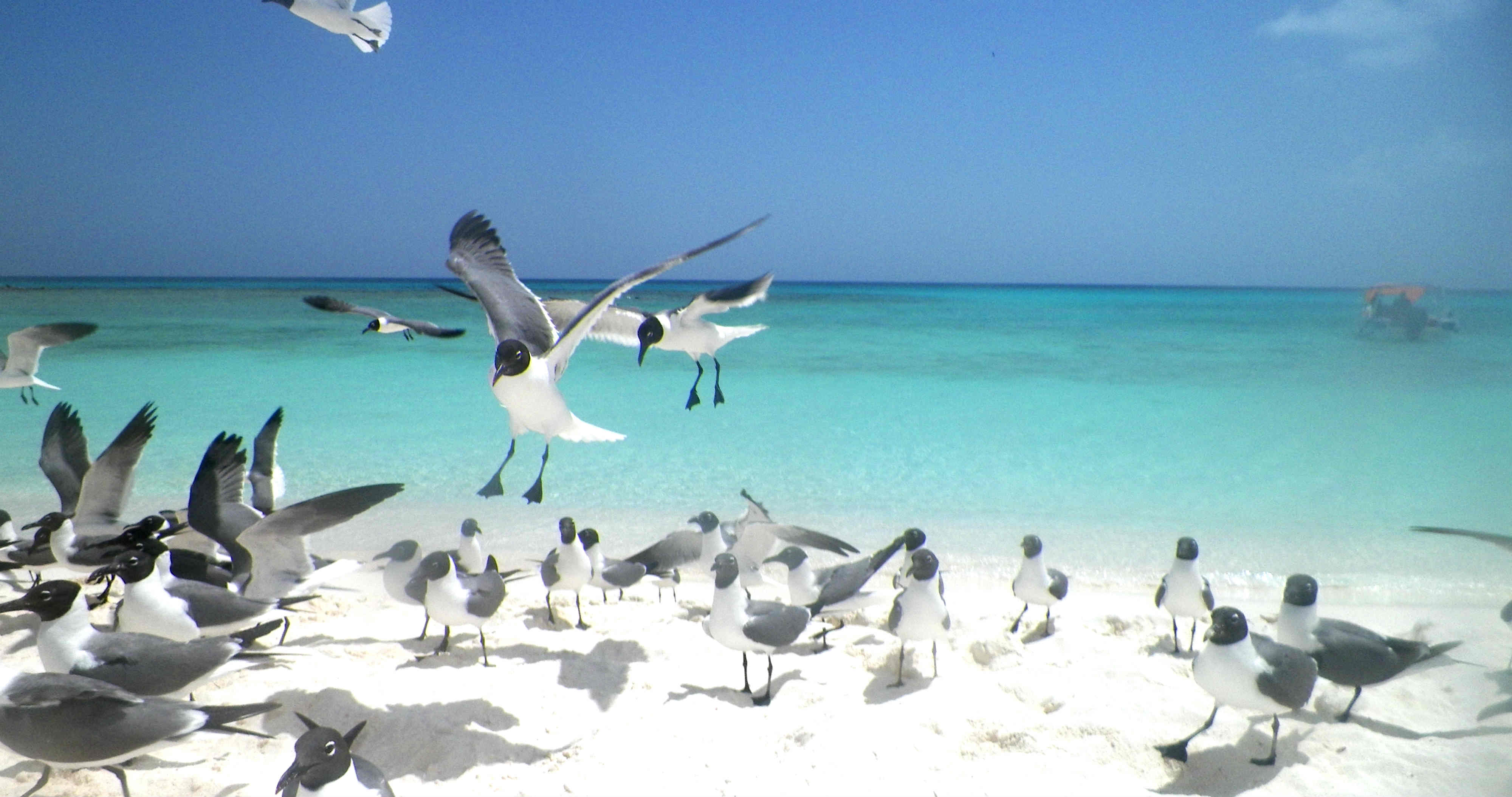 Beautiful birds on Dos Mosquises